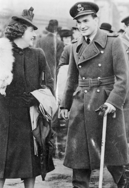 Informal portrait of Wing Commander (Wg Cdr) Brendan Eamonn Fergus "Paddy" Finucane RAF, DFC of No. 452 Squadron RAAF, attending Buckingham Palace with his mother, Florence to receive his Distinguished Service Order medal (DSO). He was later awarded two bars to his DFC. Wg Cdr Finucane was later attached to 602 Squadron RAF and was killed on operations over Etaples, France, on 15 July 1942, aged 21 years.